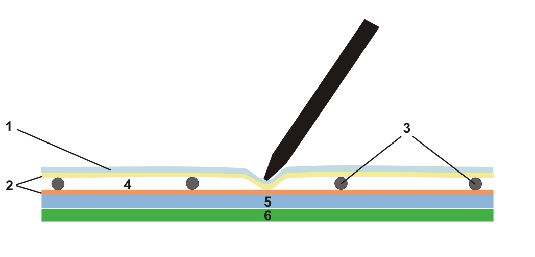 Resistive touchscreen 1.Flexible transparent surface, 2.transparent conductive layer, 3. non-conductive spacer dots, 4. space, 5. Glass, 6. LCD